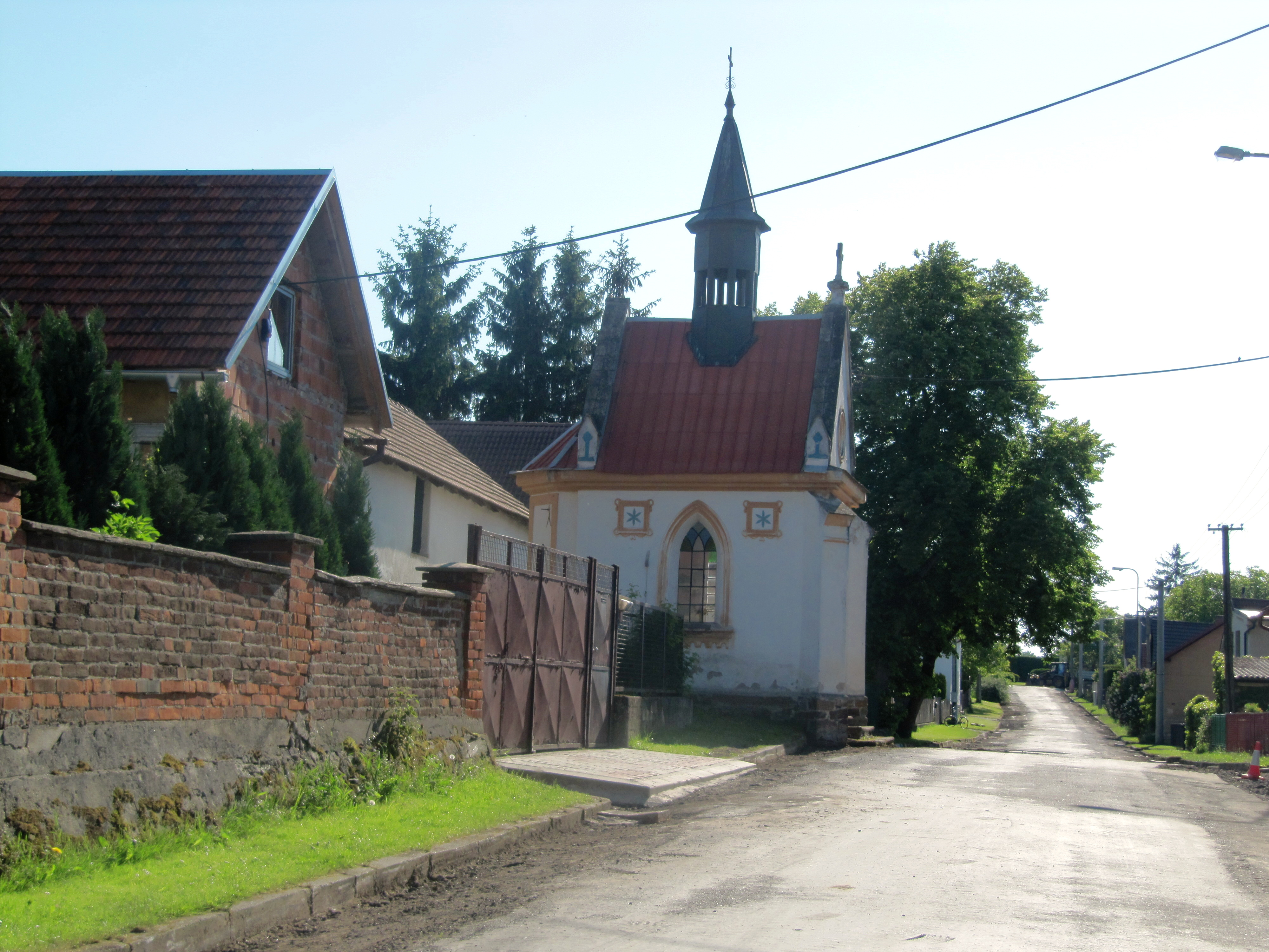 Staňkovice in Kutná Hora District, Czech Republic, part Nová Ves. Chapel.